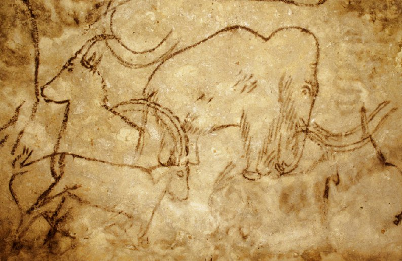 Cave painting in the Grotte de Rouffignac